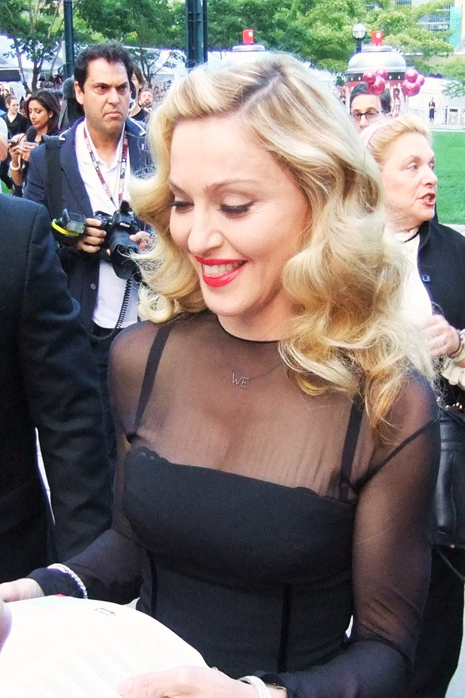 Madonna at the Toronto International Film Festival 2011.